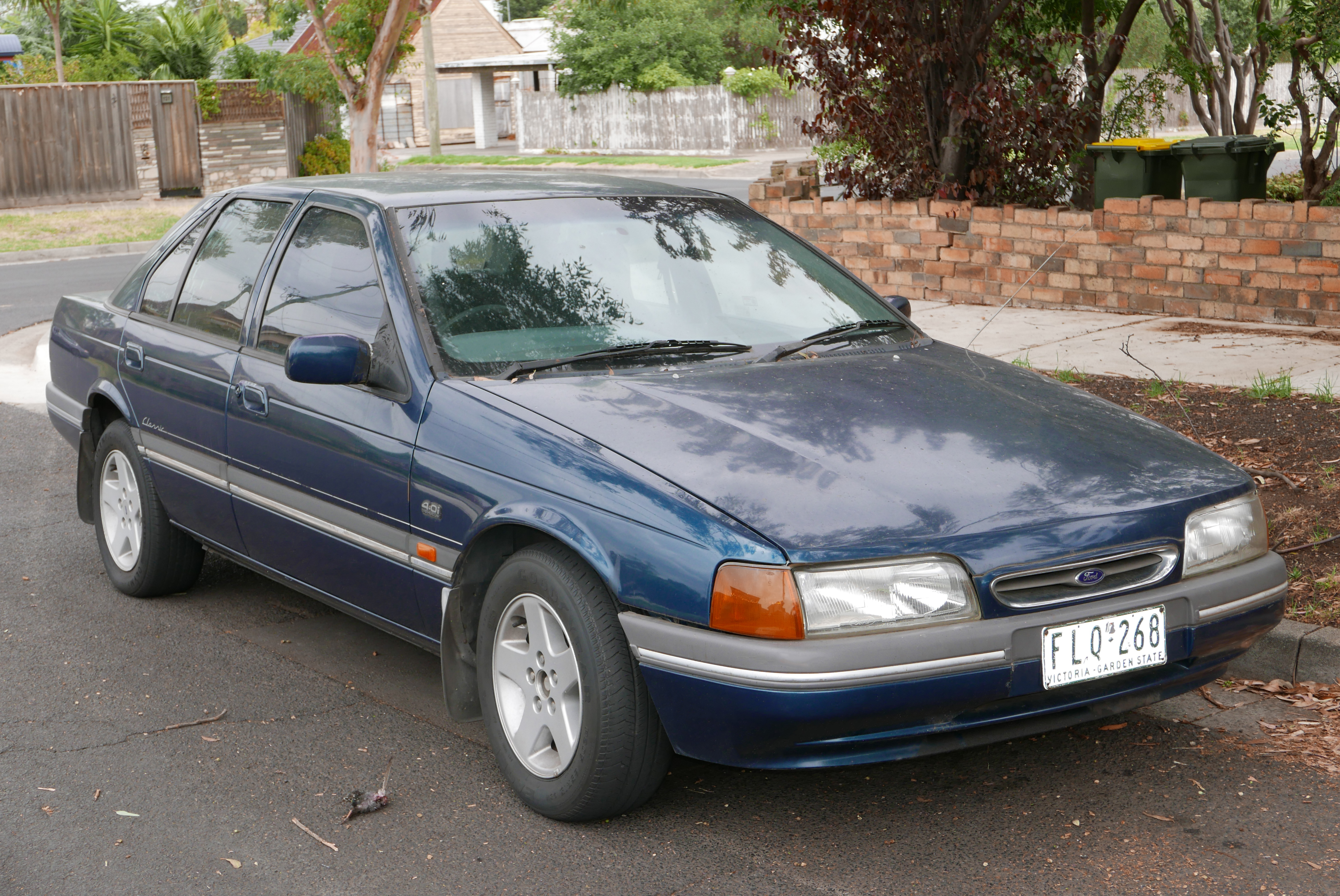 1994 Ford Falcon (ED) Futura Classic sedan. Photographed in Pascoe Vale, Victoria, Australia. Vehicle registration enquiry results Jurisdiction Victoria Registration FLQ268 Chassis code 6FPAAAJGSWRY68352 Engine code JGSWRY68352 Compliance date 1994-01 Year of manufacture 1994